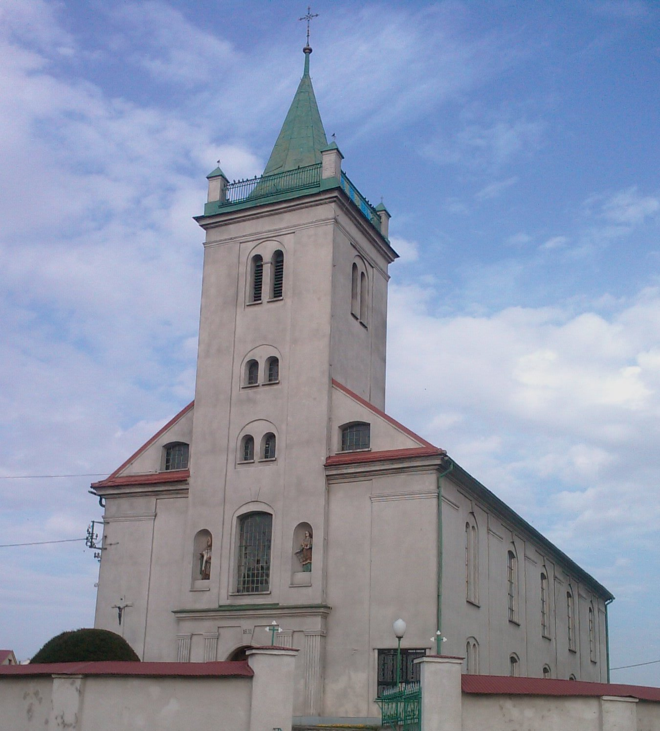 Church in Zakrzów village, Silesia PL